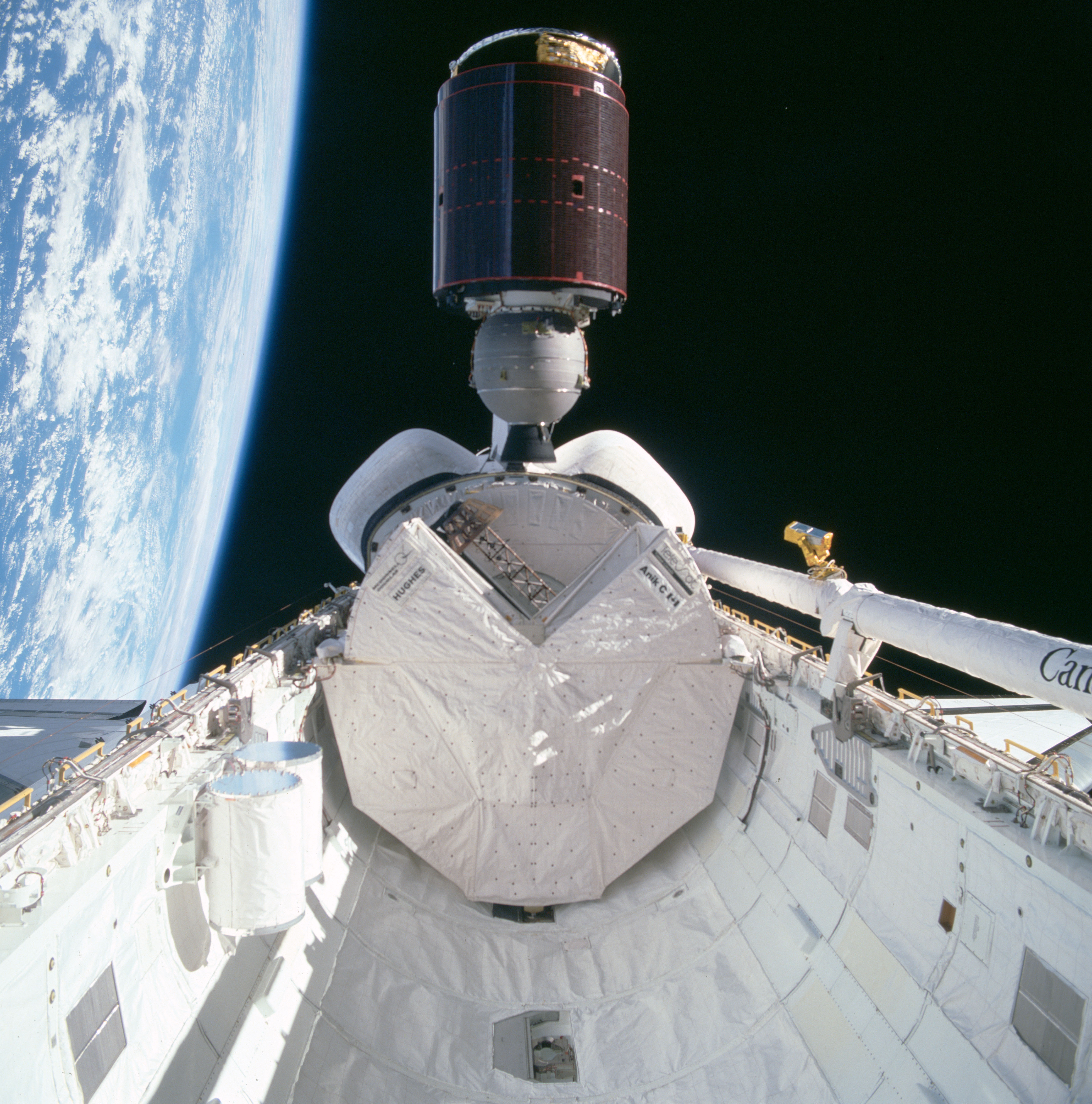 Deployment of the Telesat-I (Anik C-1) from the payload bay on the first day of the STS 51-D mission. Near the frame's center is the antenna for Syncom IV (LEASAT) stowed against the U.S. Navy's communications satellite. This photo was take from the aft flight deck. Earth and blackness of space share the background.